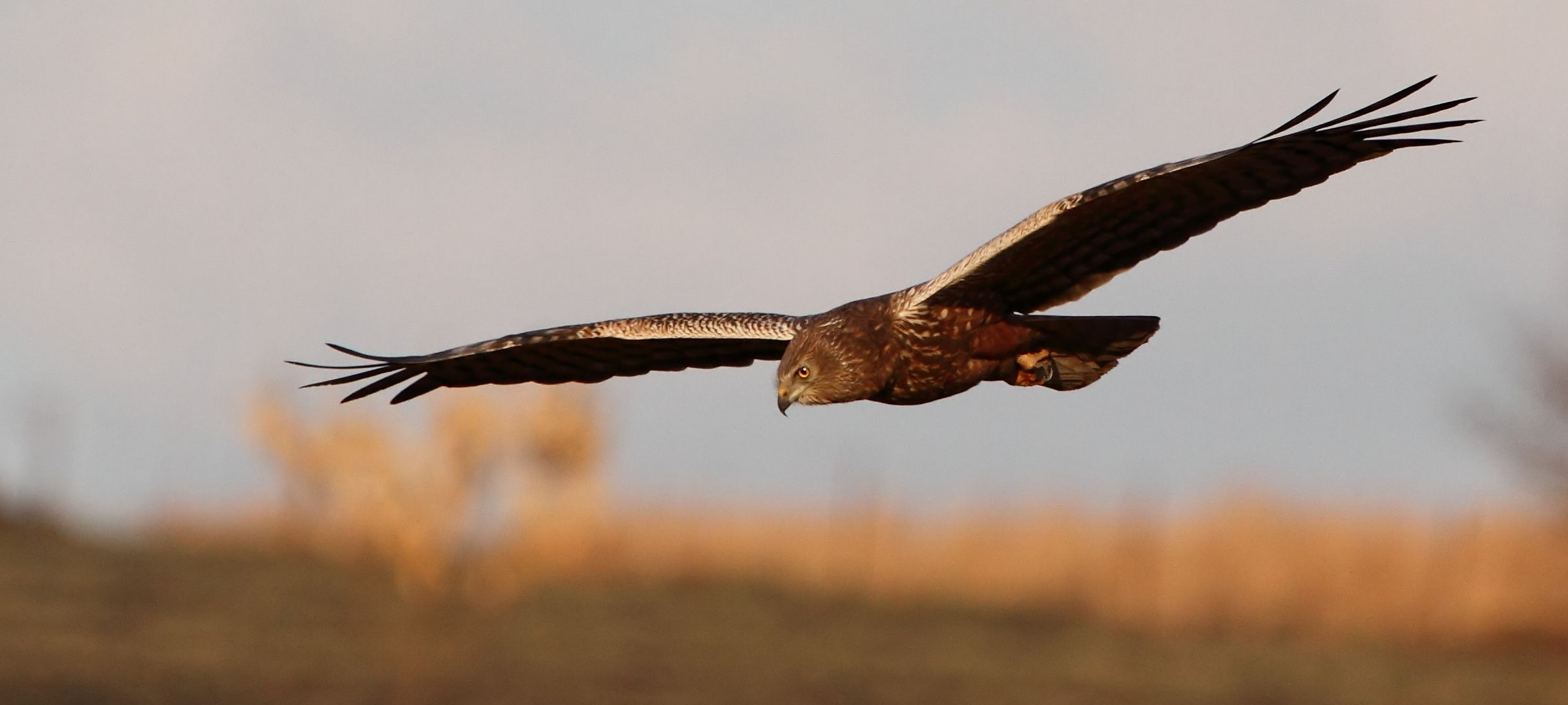 African Marsh Harrier (Circus ranivorus); Cedara Farm, KwaZulu-Natal.